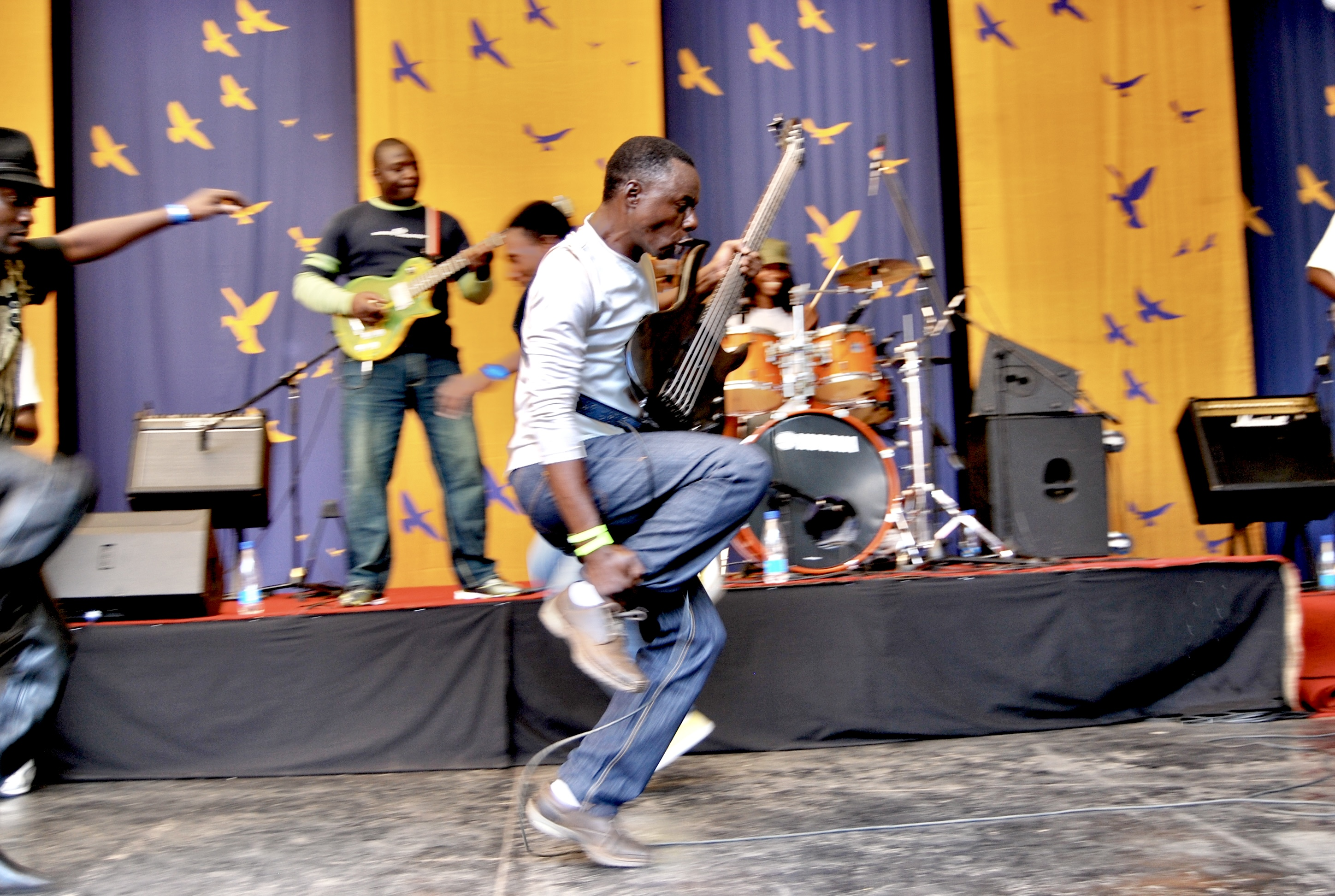 Alick Macheso by Bayhaus